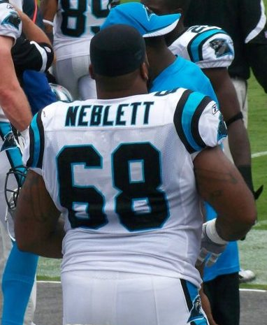 Andre Neblett on the sidelines of a Carolina Panthers game against the Jacksonville Jaguars on September 25, 2011.